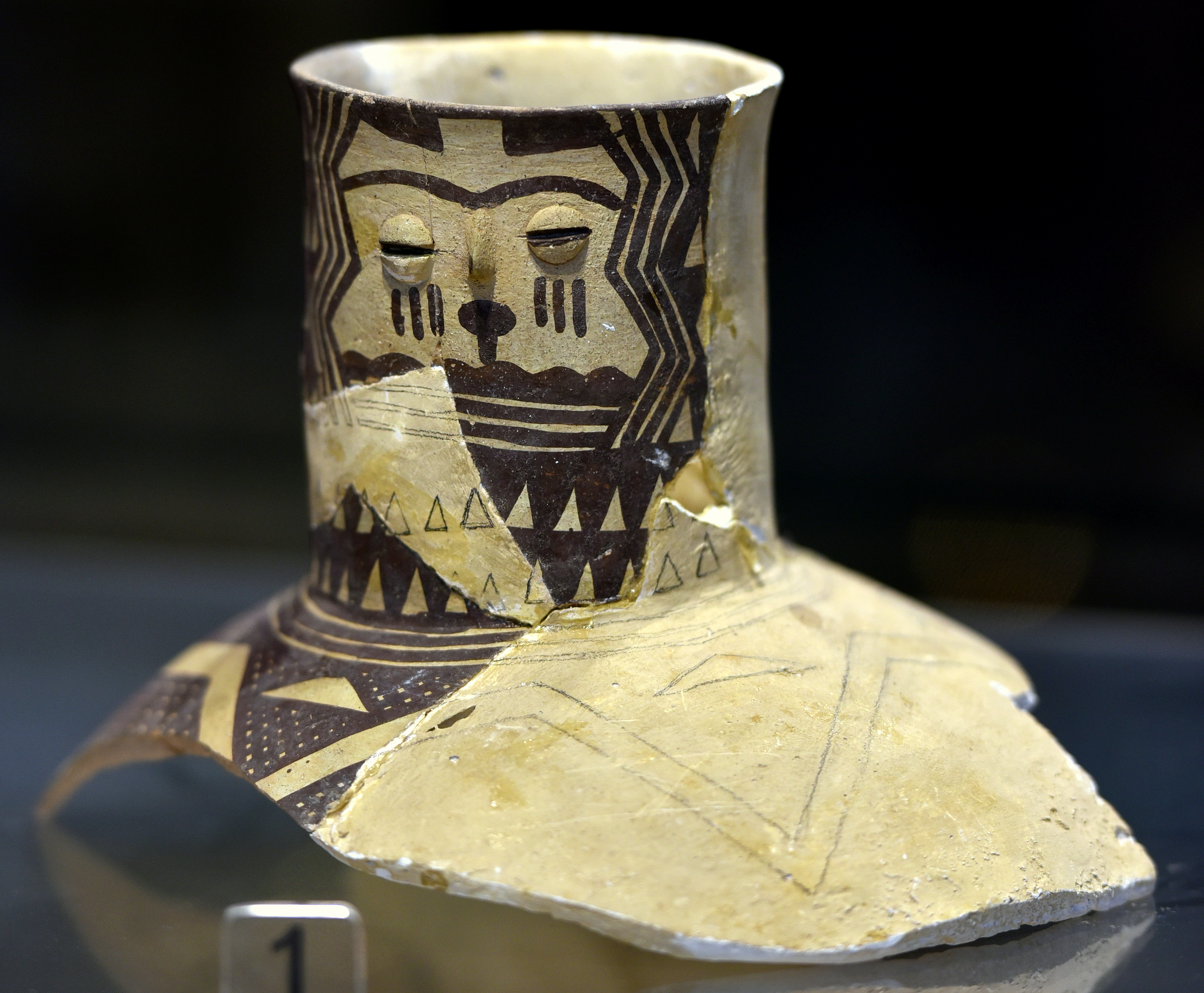 A pottery fragment showing the neck of a bottle-shaped jar painted with a woman's face. The eyes and nose were added. The overall depiction points to Samarra culture. From Tell Hassuna. 5000 BCE. On display a the Iraq Museum in Baghdad, Iraq.